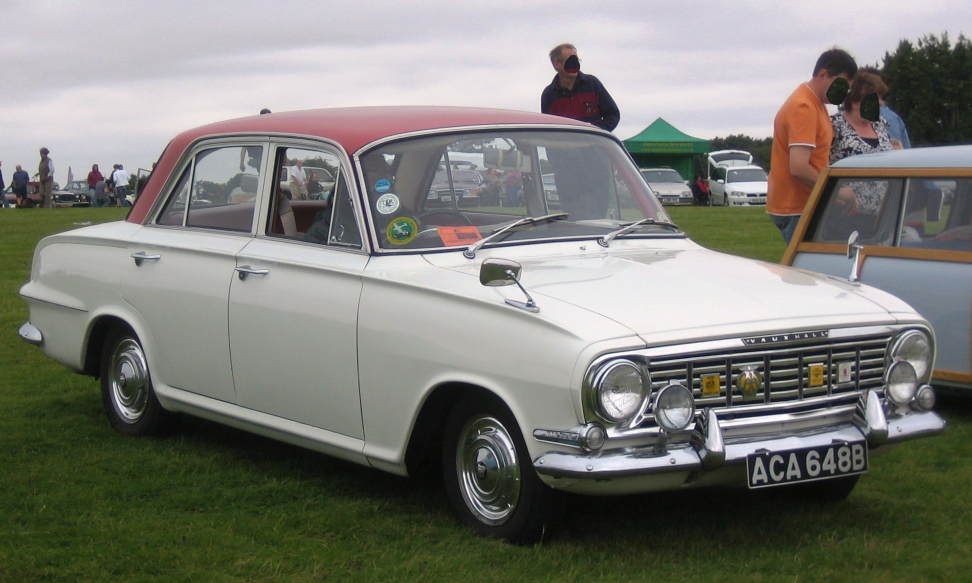 Vauxhall Victor FB at Classic Car Show in Hertfordshire. The relatively complex grill and two tone paintwork identify this as one of the more expensive versions.